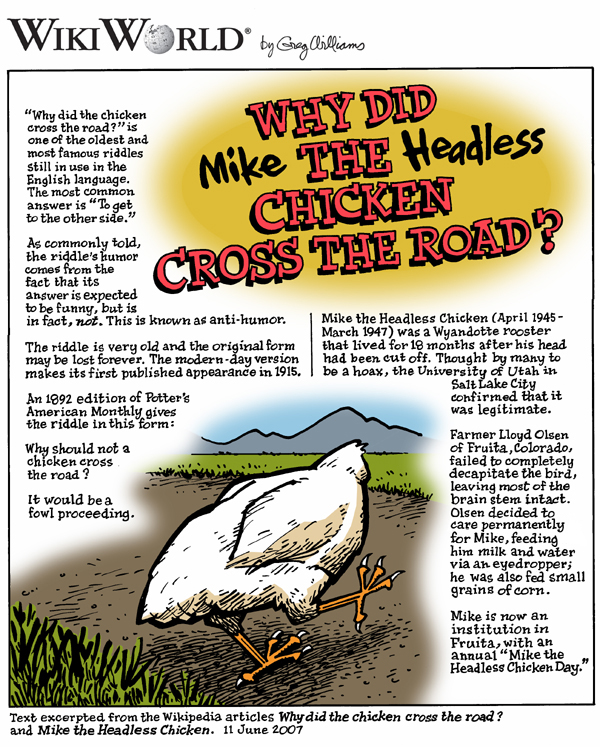 WikiWorld comic based on articles "Why did the chicken cross the road?" and "Mike the Headless Chicken"